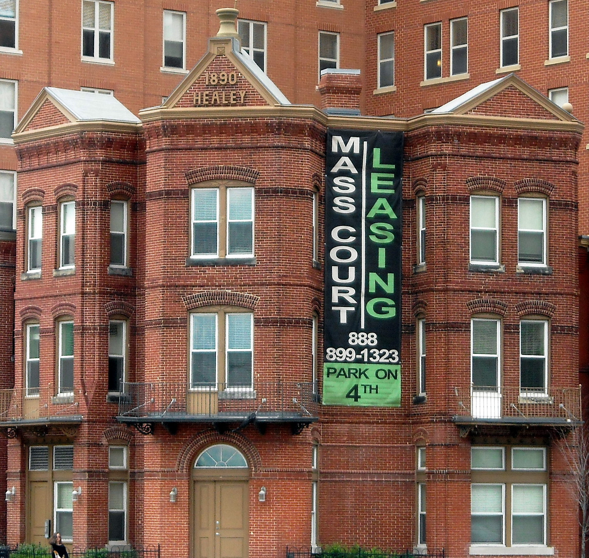 Germuiller Row located at 748 3rd Street, NW & 300-302 H Street, NW in the Judiciary Square neighborhood of Washington, D.C. Designed by local architect Julius Germuiller, the Late Victorian buildings were constructed between 1888-1891. Pictured is 300 H Street, NW (at Massachusetts Avenue). Built in 1890 for commercial use, it was recently incorporated into the Mass Court condominium. On December 1, 1994 Germuiller Row was added to the National Register of Historic Places.